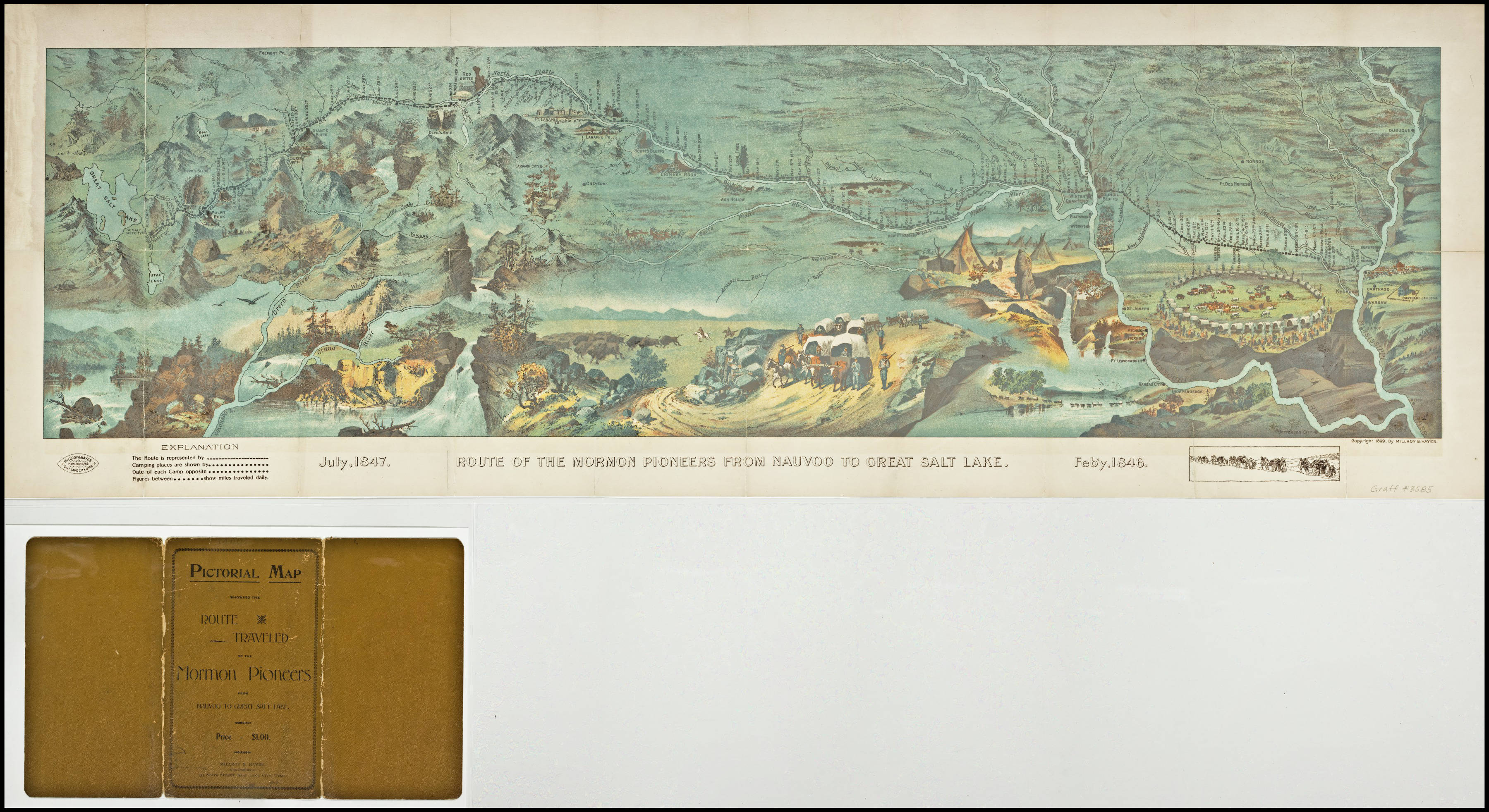 Not drawn to scale. Cover title, Pictorial map showing the route traveled by the Mormon pioneers from Nauvoo to Great Salt Lake. Pictorial map. Shows daily progress along the route.